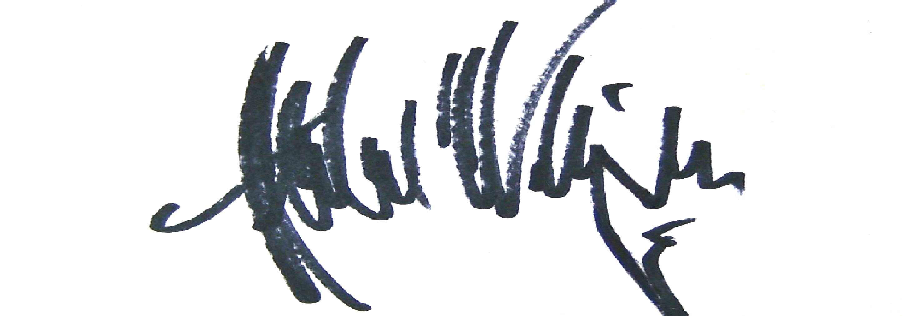 Herbert von Karajan signature